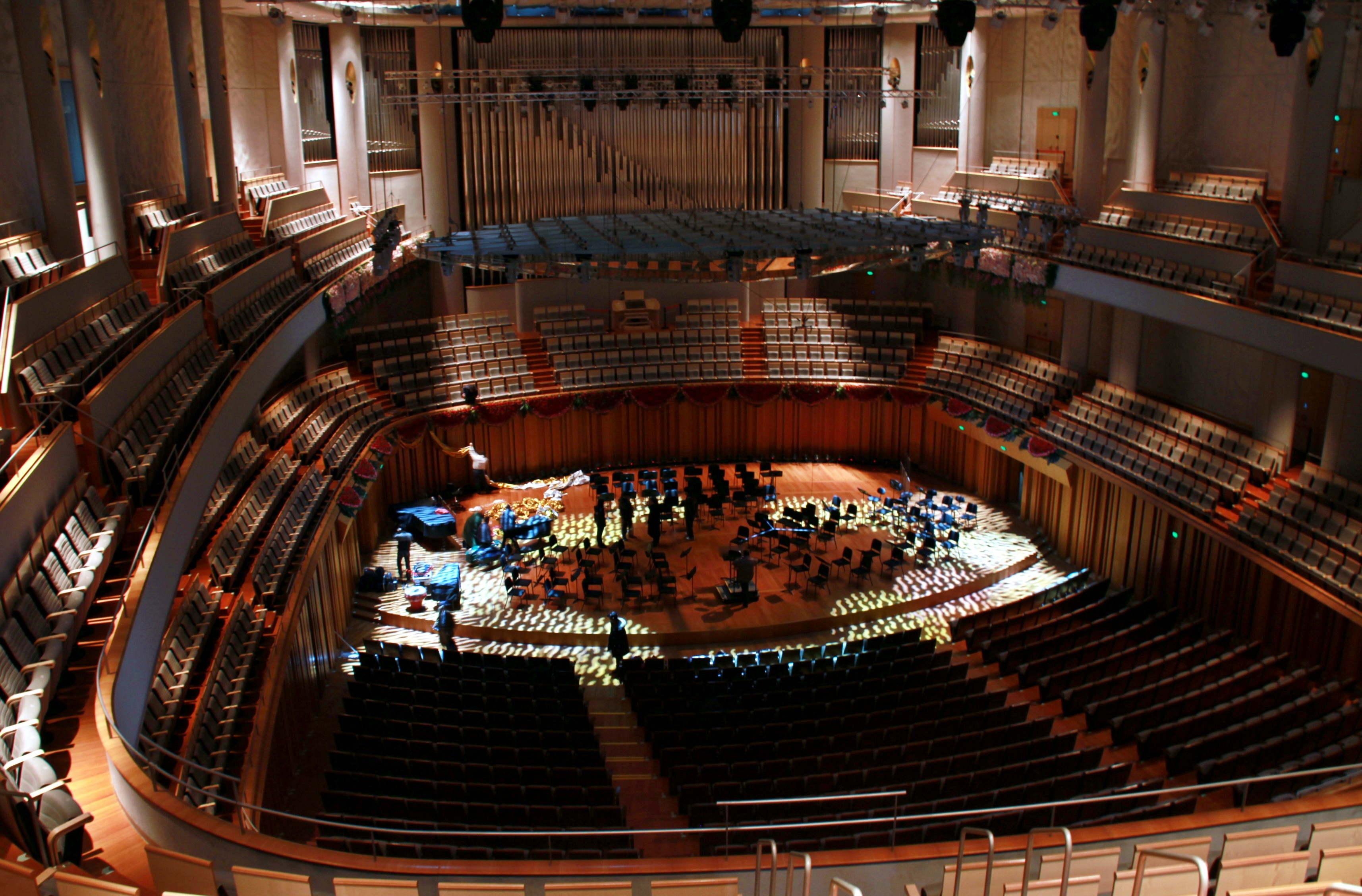 Photograph of the concert hall in the National Centre for the Performing Arts (NCPA) in Beijing, China.